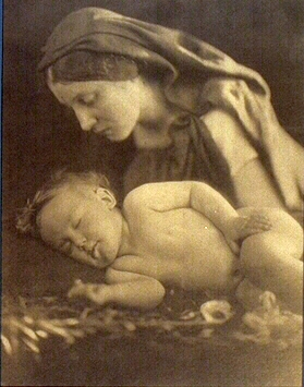 The Day Spring (1865) / print by A.L. Coburn, ca. 1915, from copy negative of original print platinum print, tinted stock, mechanically varnished 26.3 x 20.6 cm.